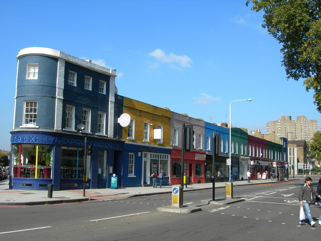 Brightly Coloured Shops at Kennington Cross. These shops are on Kennington Road, between Windmill Row and Kennington Lane. In the background is the Ethelred Estate 575945